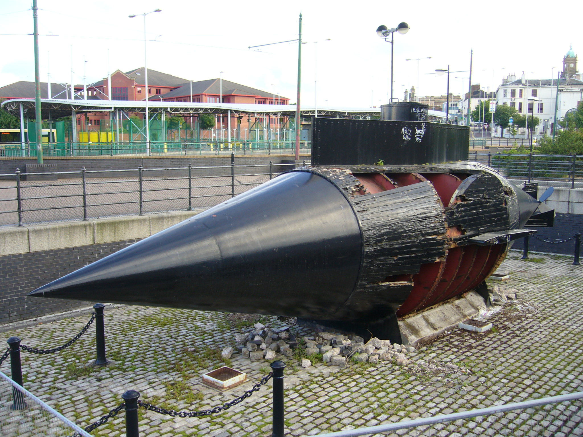 A replica of one of the two Resurgam submarines. This one was built in 1879 and is on display at grid reference SJ 328 892 close to the Woodside terminal of the Mersey Ferry in Birkenhead, Wirral and a stone's throw from the Shore Road Pumping Station.